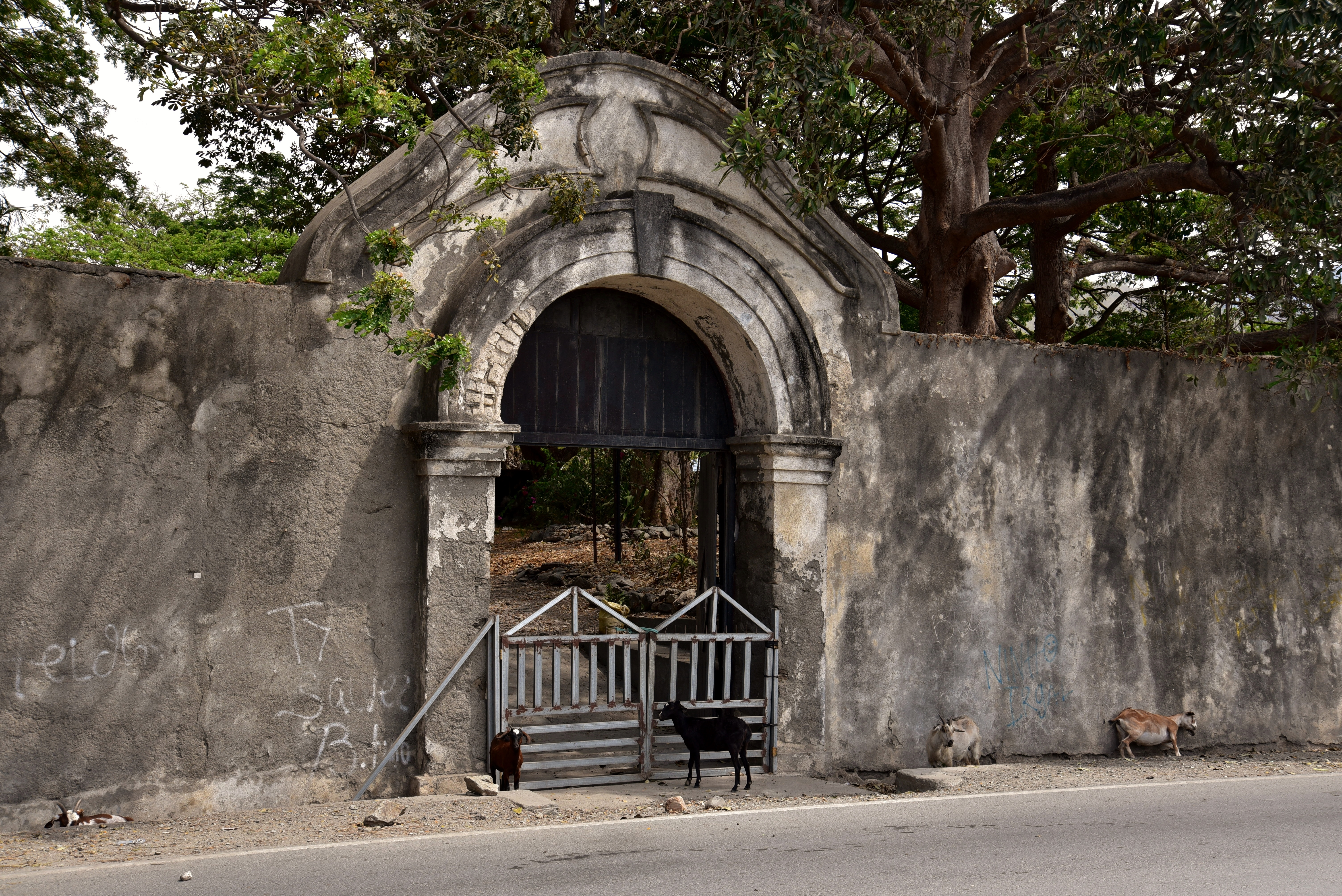 View of the fort in the village of Maubara, East Timor